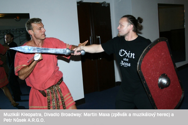 Petr Nůsek Personality rights warningAlthough this work is freely licensed or in the public domain, the person(s) shown may have rights that legally restrict certain re-uses unless those depicted consent to such uses. In these cases, a model release or other evidence of consent could protect you from infringement claims.